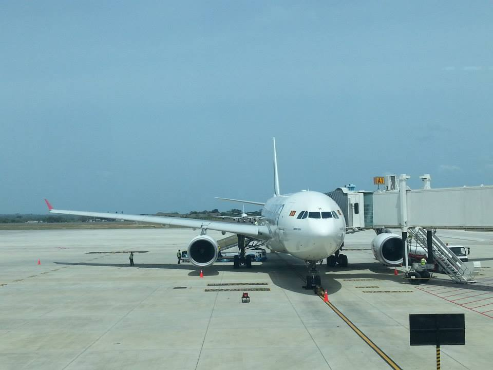 SriLankan airlines a330-200 at hambantota